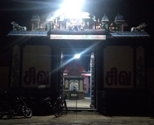 Main entrance of Karaiveeram karaveeranathar temple, Kudavasal Taluk, Tiruvarur District, Tamil Nadu, India